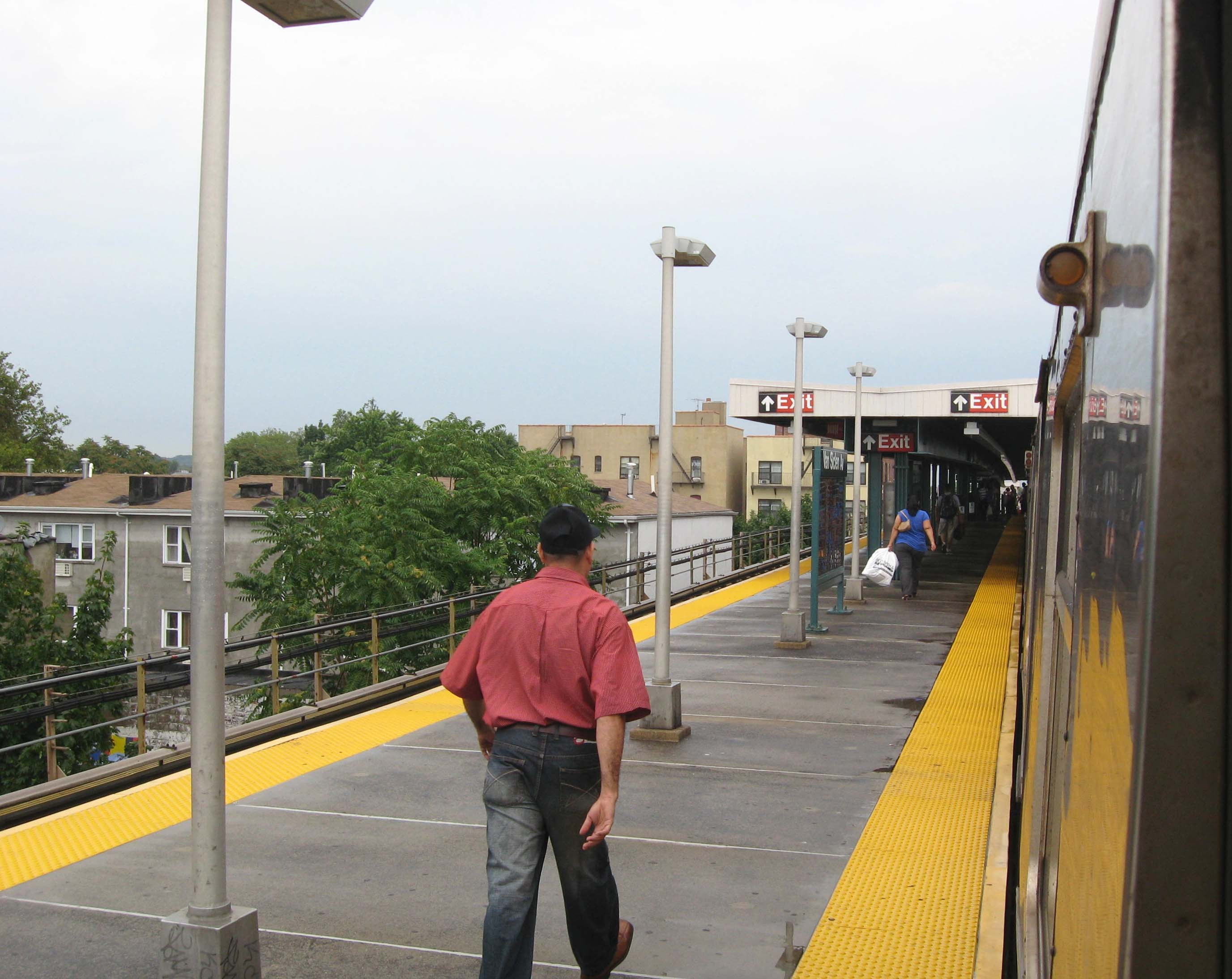 Looking northeast on western part of platform of Van Siclen Avenue (BMT Jamaica Line) on a rainy midday.